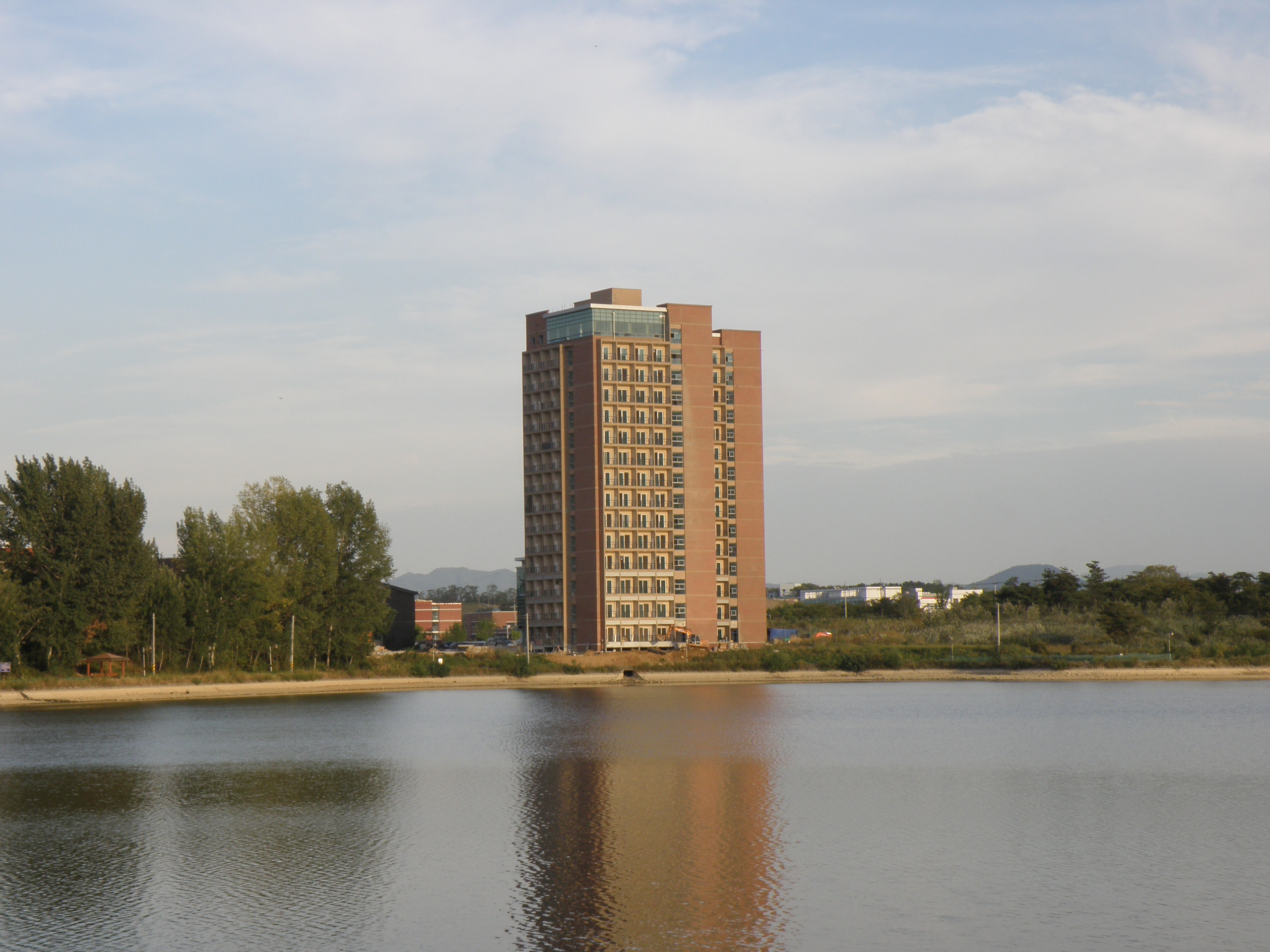 (Yeungnam University dorm Author: Muhammad Masum Jujuly, copyright: myself) For Further information, goto my facebook album